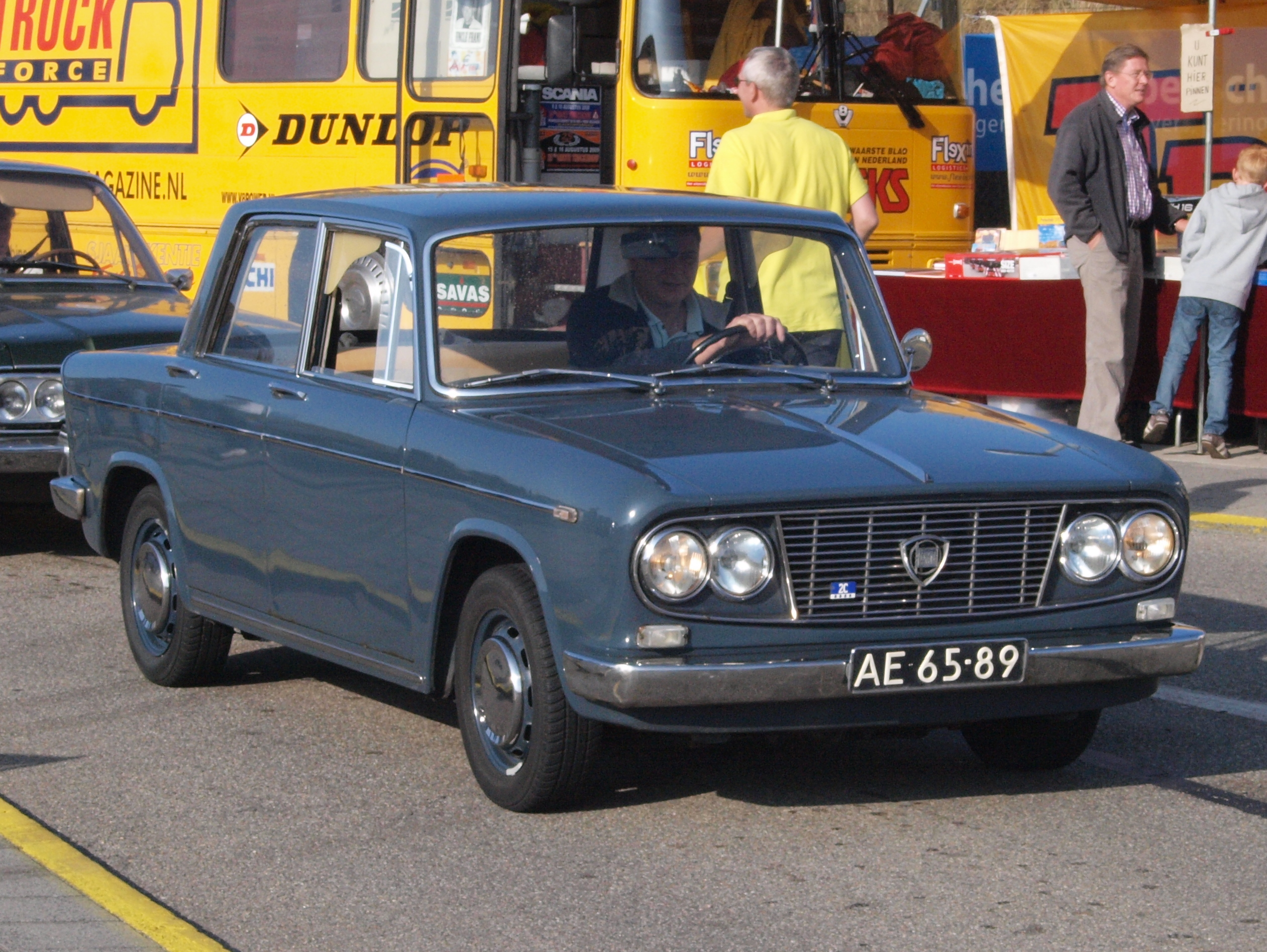 Photographed at the Nationaal Oldtimer Festival Zandvoort 2009, The Netherlands. OLYMPUS DIGITAL CAMERA